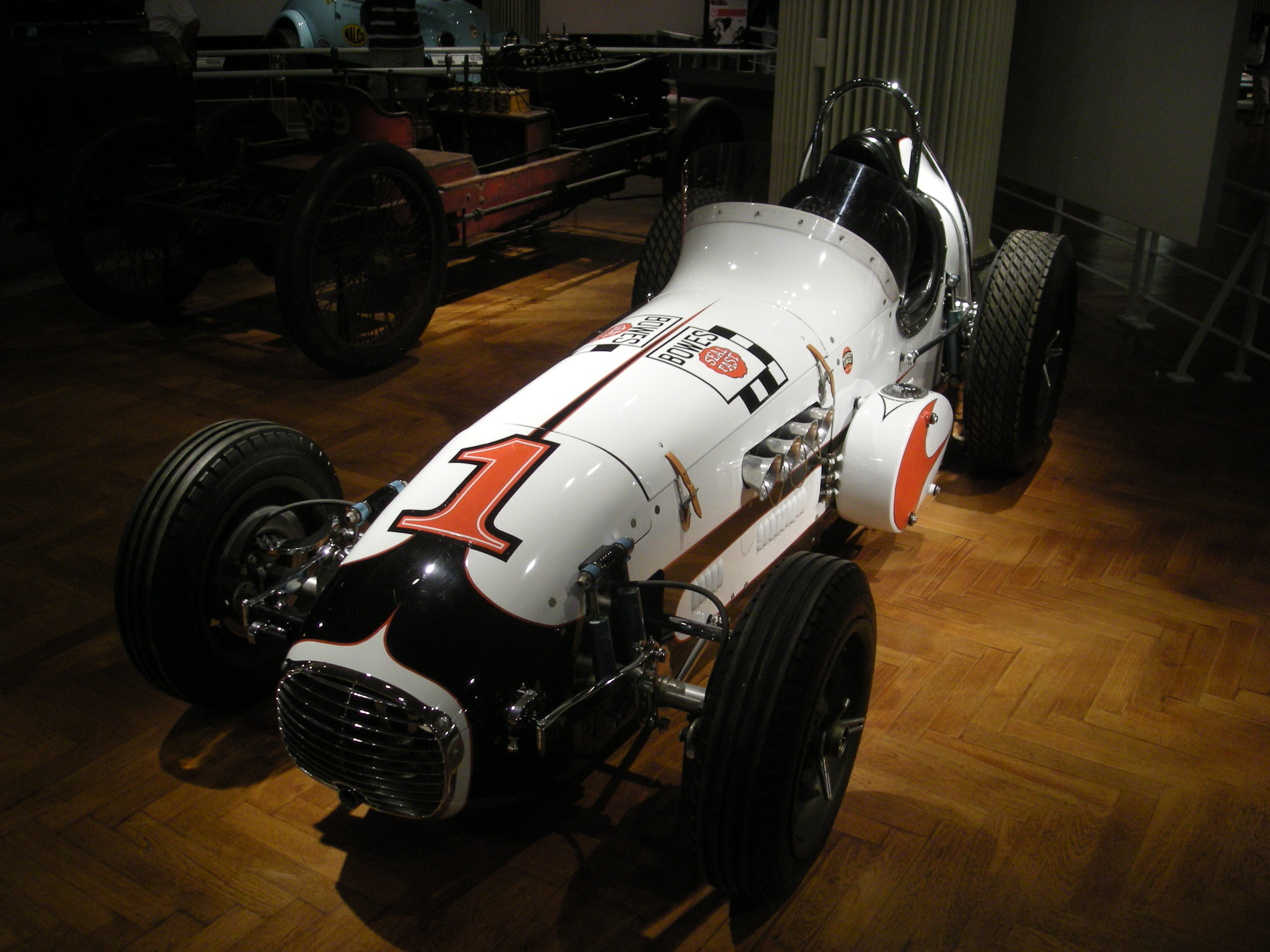 A 1960 Meskowski on display at the Henry Ford Museum in Dearborn, Michigan (United States).